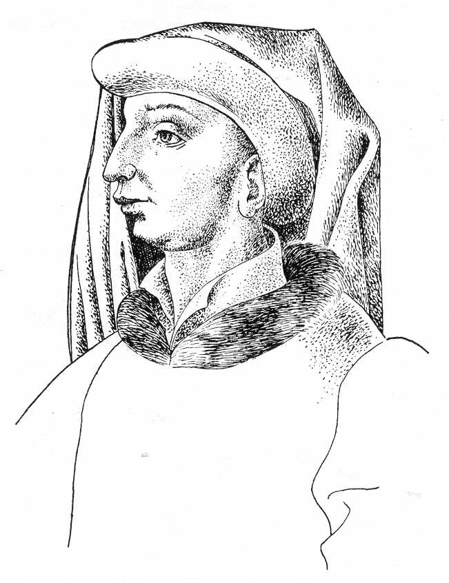 Jean de Touraine, dauphin of France from 1415 to 1417